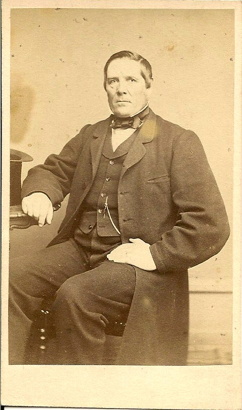 Swedish politician from late nineteenth century